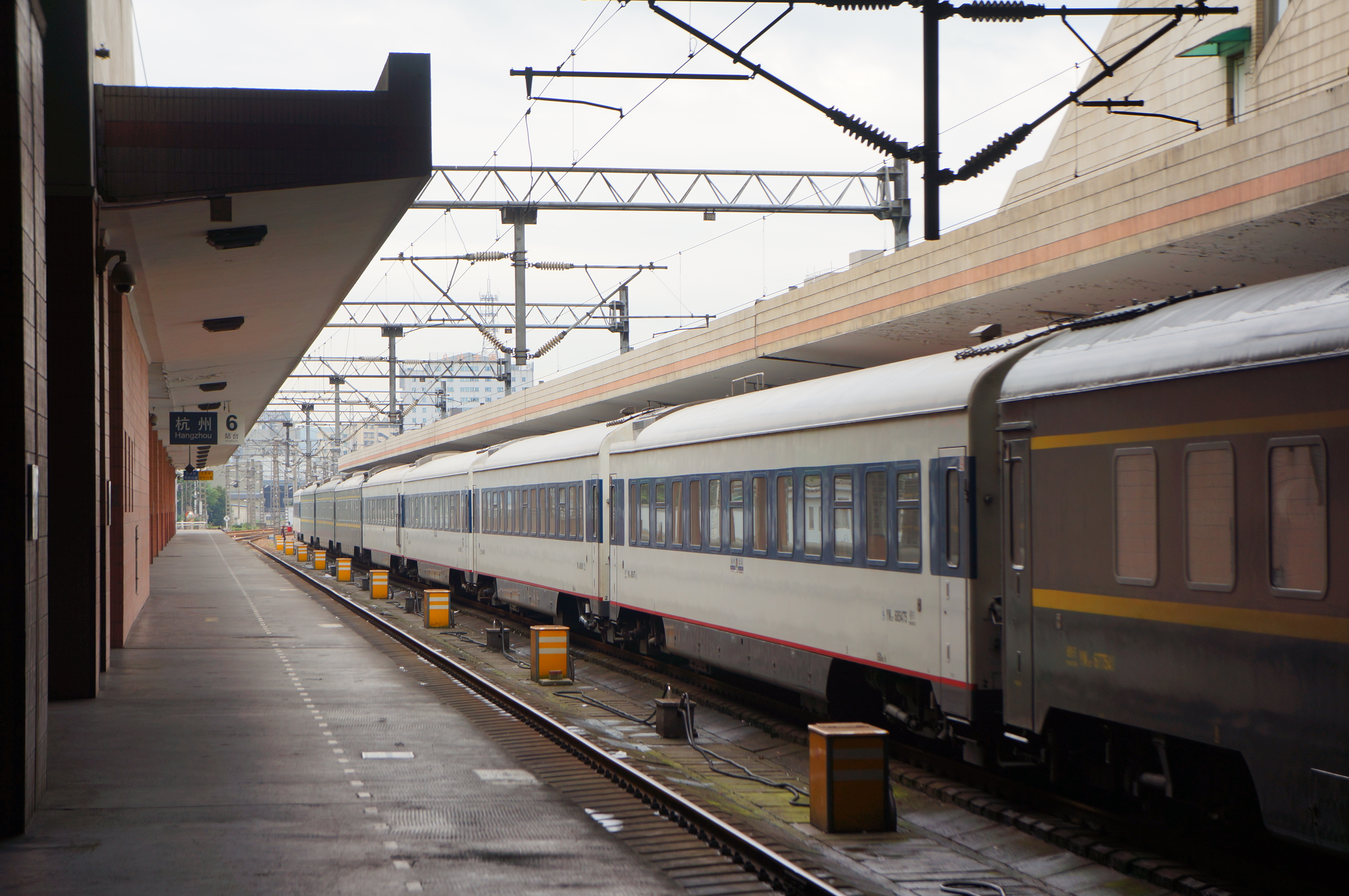 201606 Coaches of Z9 at Hangzhou Station